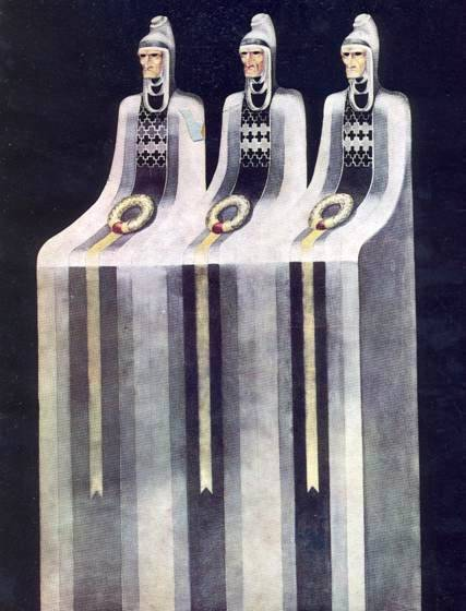 A fragment of scenic design for Marjanishvili's production of ‘Othello’. Tbilisi, 1933